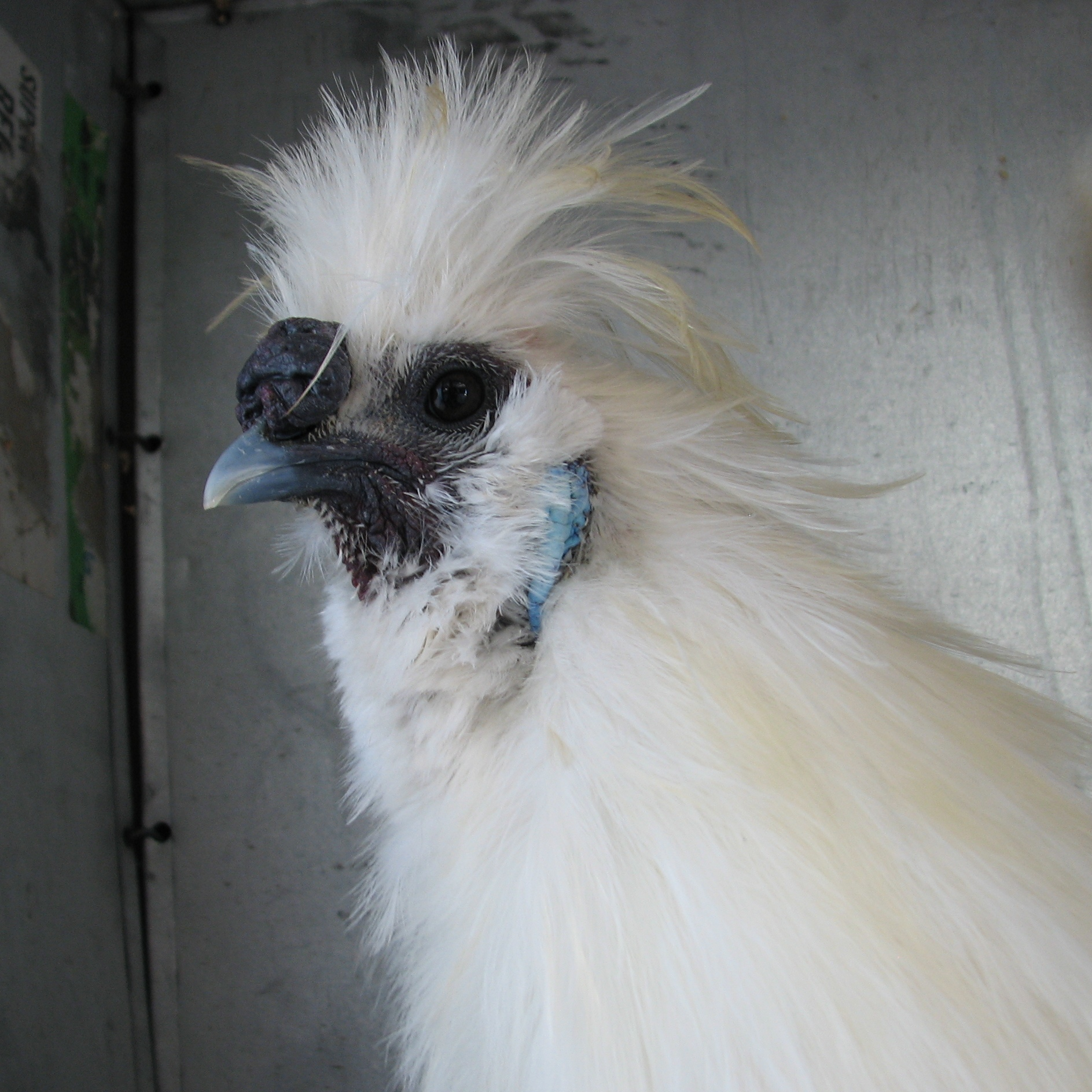 Close-up of a Silkie hen.